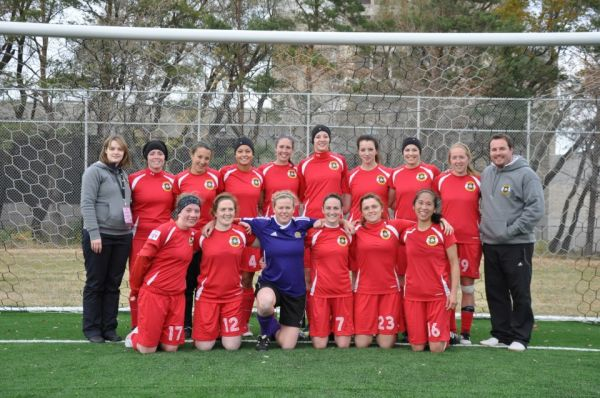 Team photo